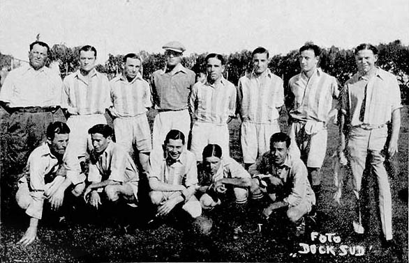 Photo of the Sportivo Dock Sud team, Primera División champion